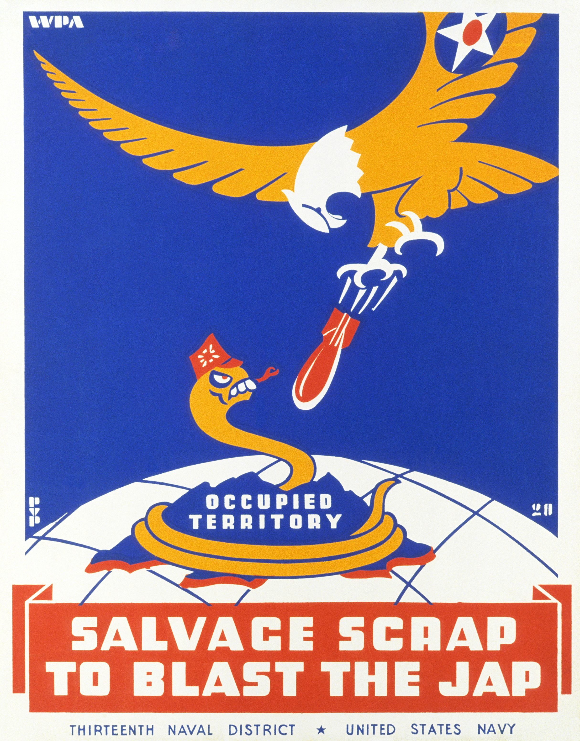 Poster for Thirteenth Naval District, United States Navy, showing a snake representing Japan being bombed by an eagle. An example of American propaganda during World War II.